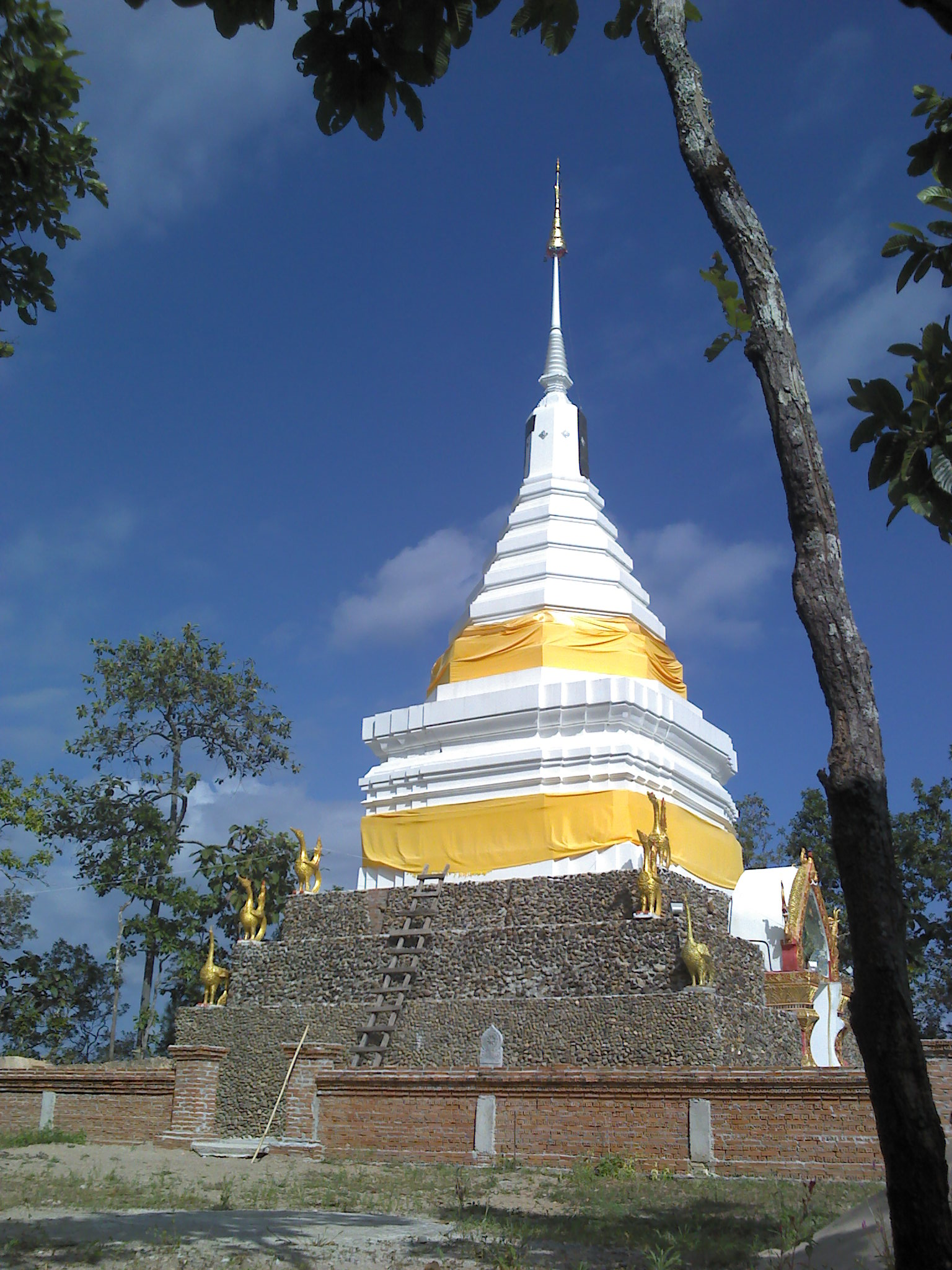 พระธาตุดอยนก